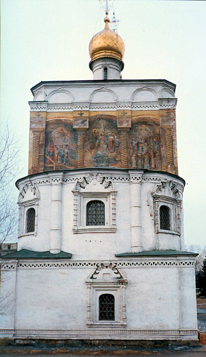 Irkutsk, Siberia 1990: Church Of Our Saviour.